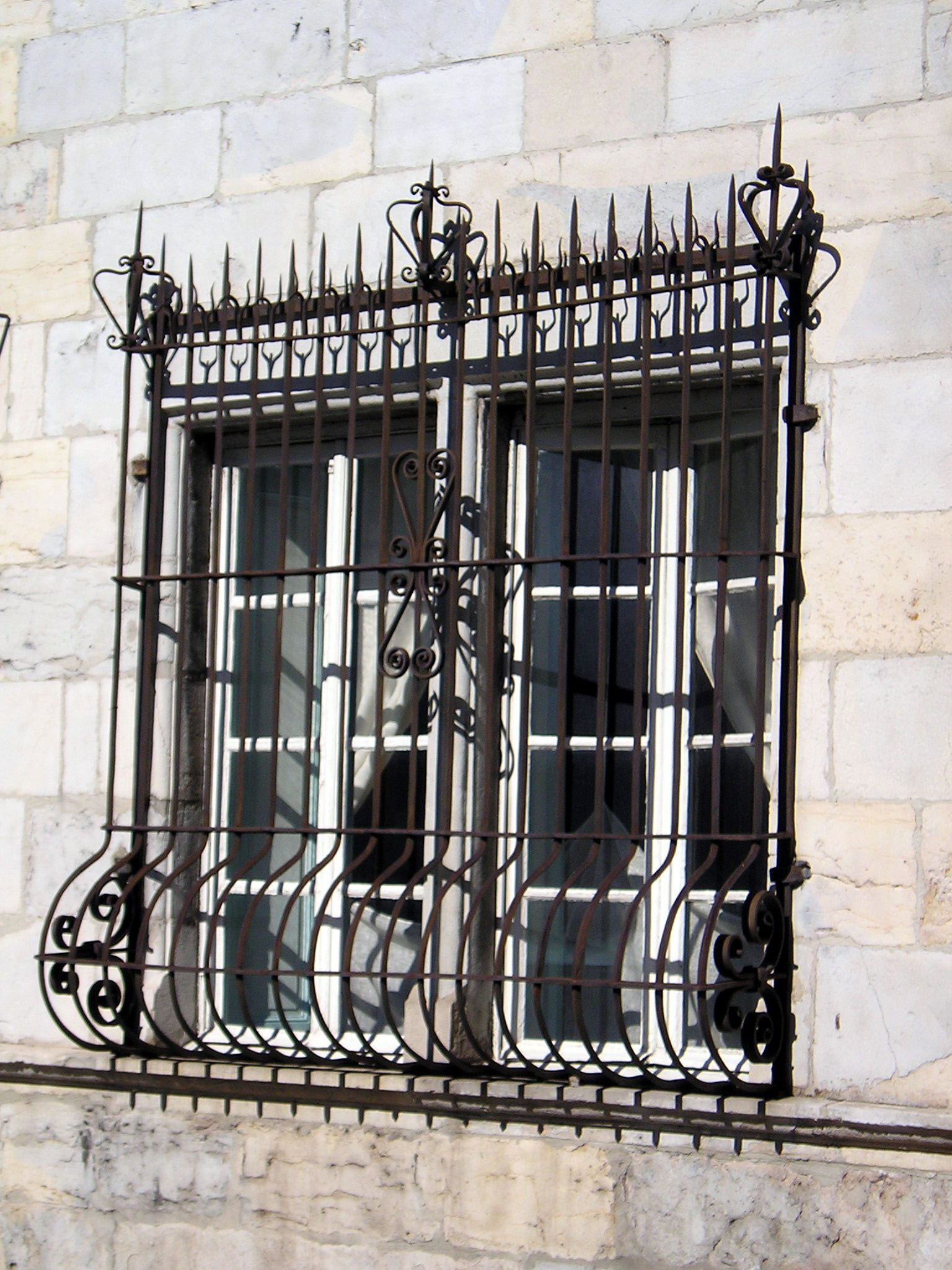 window's grid of th old town of the french city of Besançon